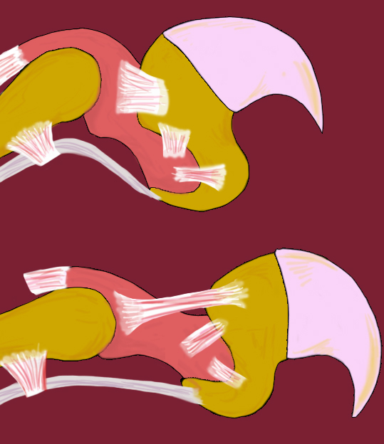 This is a drawing of cat's retractile claws.